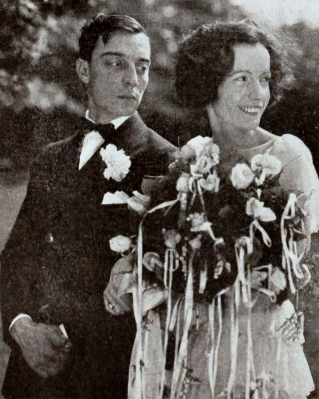 Actors Buster Keaton and Natalie Talmadge were married at Natalie's estate in Bayside, Long Island, New York, on May 31, 1921, on page 72 of the July 9, 1921 Exhibitors Herald.